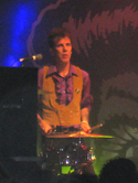 Slim Jim Phantom live, Stray Cats concert in Sweden, 2008